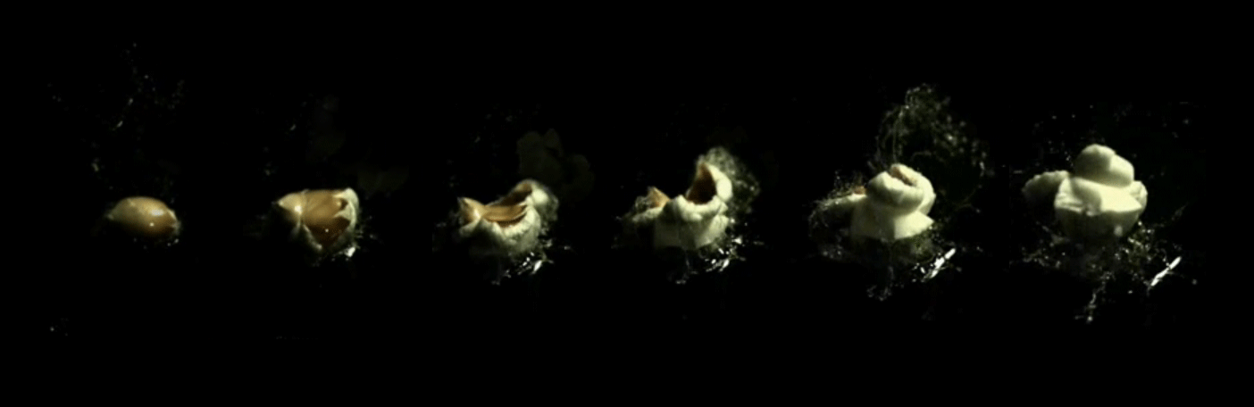 The process of popping a kernel